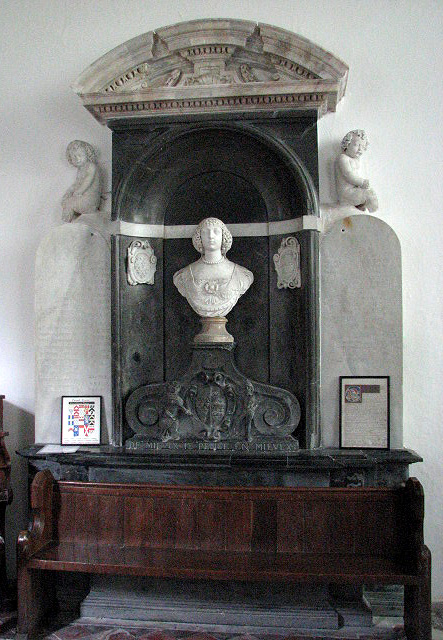 St Michael's church - C17 monument. Lady Katherine Bertie, daughter of the Earl of Lindsey, wife of Sir William Paston, 1st Baronet (1610–1663), Sheriff of Norfolk. Lady Katherine died in childbirth in 1636 after seven years of marriage and was buried in the chancel of Oxnead church. This work is by the celebrated Jacobean sculptor Nicholas Stone.